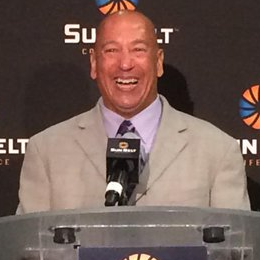 Trent Miles, head coach of the Georgia State Panthers football team, at the 2015 Sun Belt Conference Media Day in the Mercedes-Benz Superdome in New Orleans.